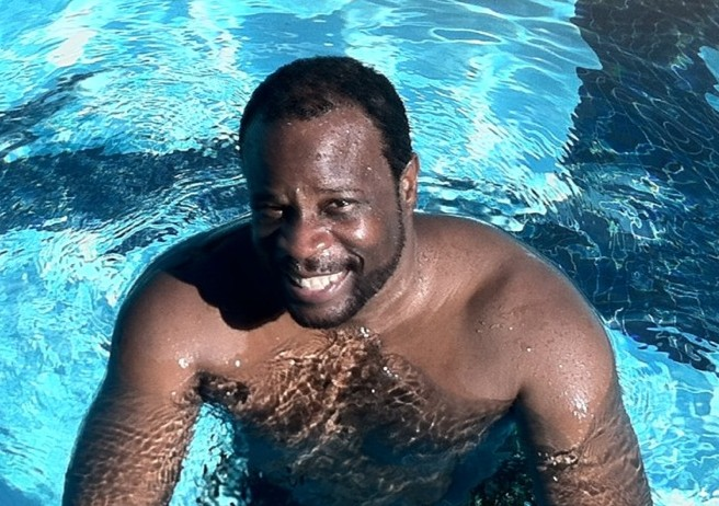 Grand L. Bush at a Los Angeles-area aquatic center in 2012